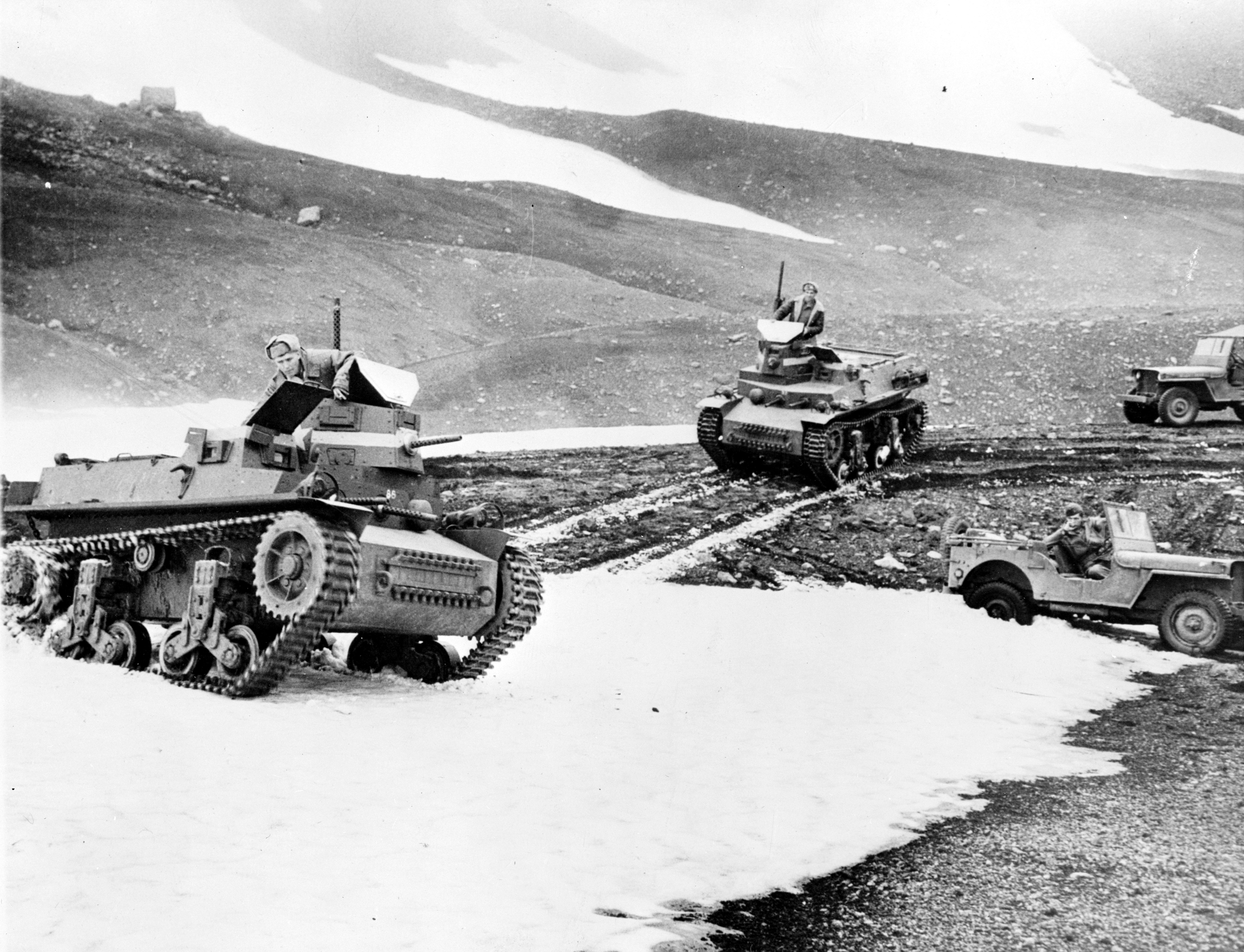 Marmon-Herrington CTLS tanks maneuvering in a mountain pass in Alaska (USA), in the summer of 1942. One tank is CTLS-4TAY (Light Tank T15), with driver on with its turret offset to the right, the driver sitting on the left. The other is CTLS-4TAC (Light Tank T14) in which that arrangement is reversed.